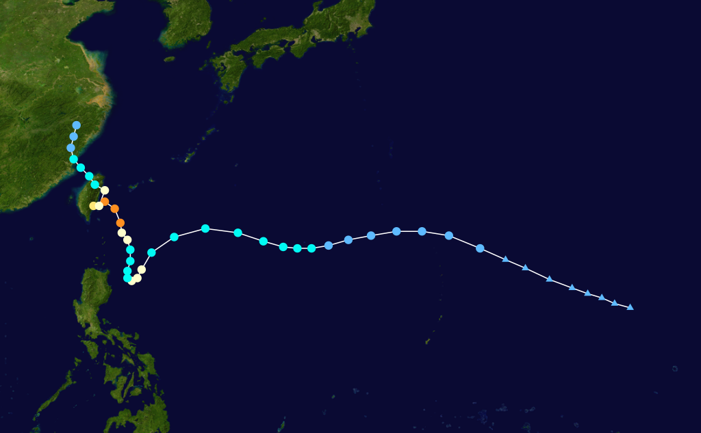 Typhoon Sarah 1989 track. Uses the color scheme from the Saffir-Simpson Hurricane Scale.